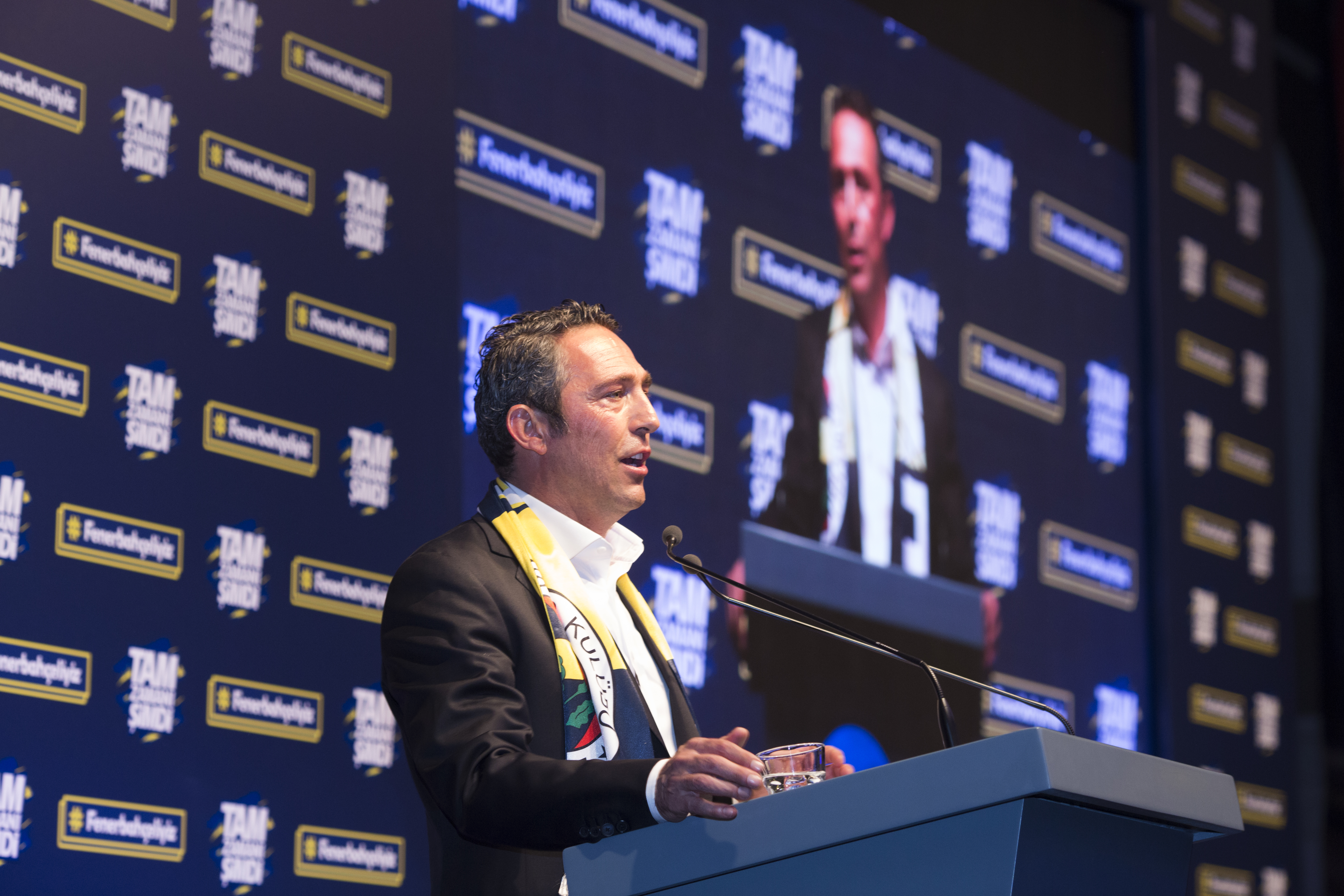 Ali Koç Presidential Campaign, İzmir Meeting, Kaya İzmir Thermal & Convention, 30 March 2018